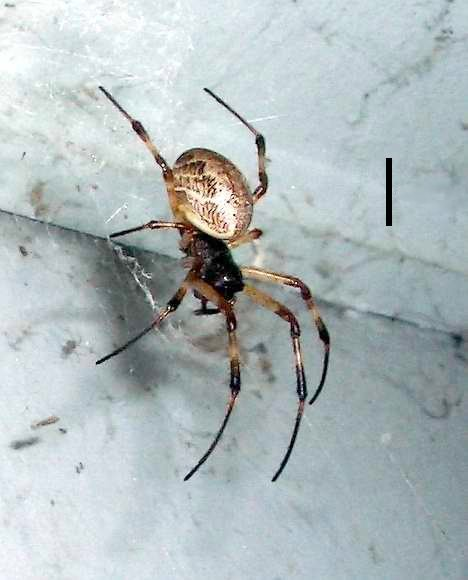 Possibly Nephilengys papuana (Nephilidae), in Cape York Peninsula, Queensland (northern Australia).